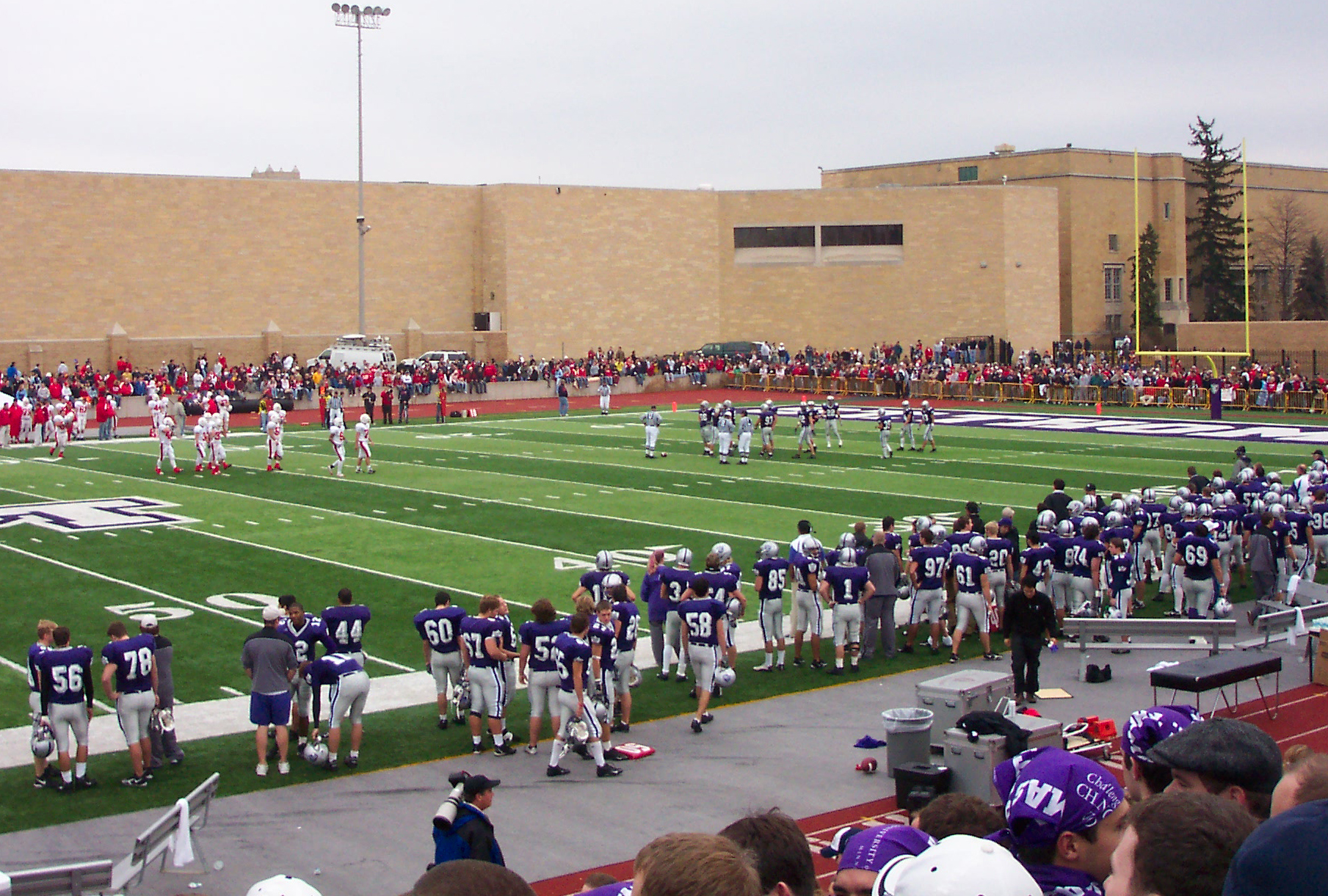 Football game against St. John's University at University of St. Thomas, St. Paul, Minnesota